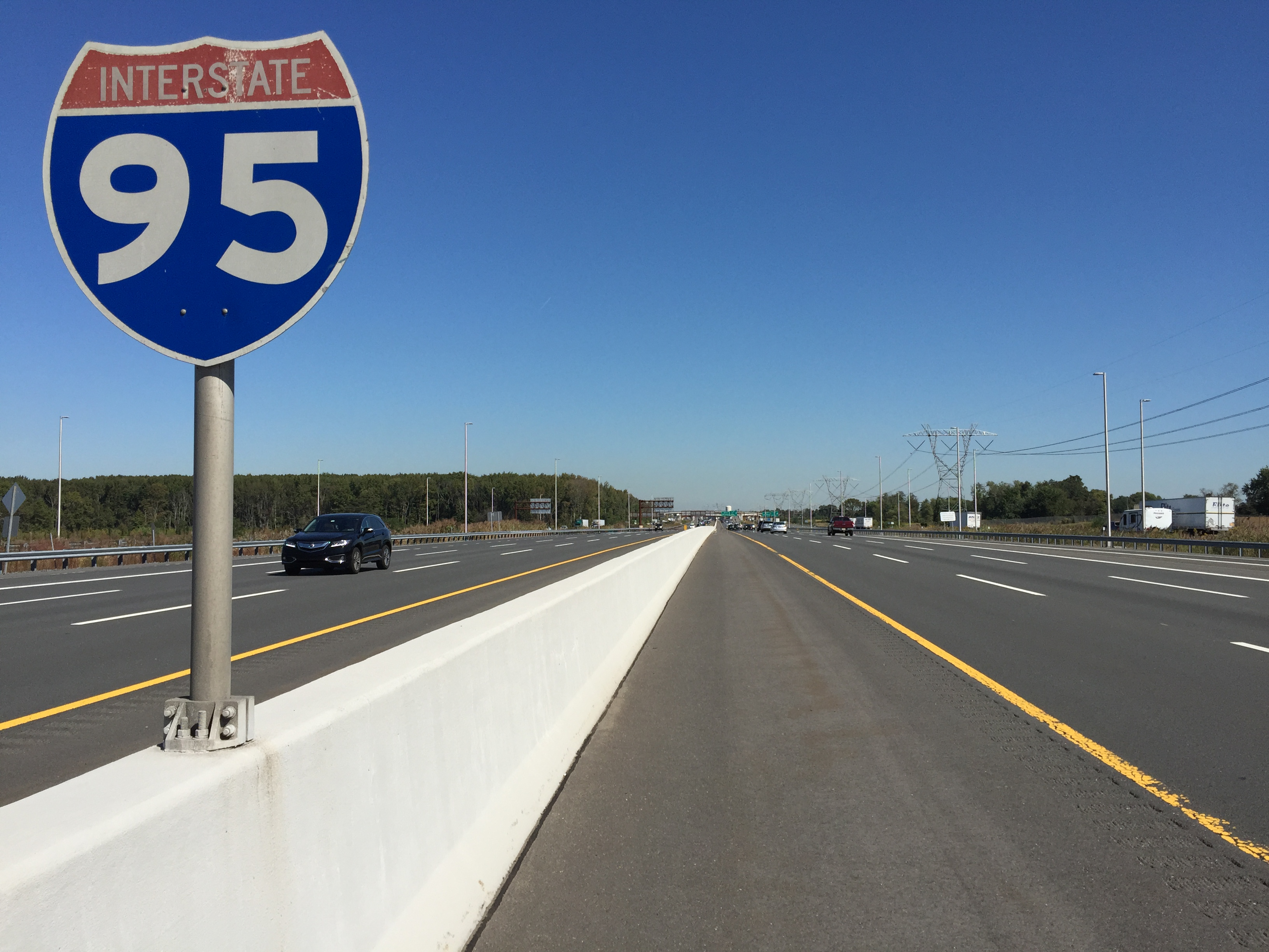 View north along Interstate 95 (New Jersey Turnpike) just south of Exit 7A (Interstate 195, Trenton, Shore Points) in Hamilton Township, Mercer County, New Jersey